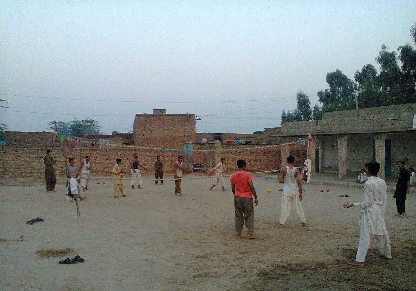 I also Uploaded this Photo on Botala Facebook Page & on website